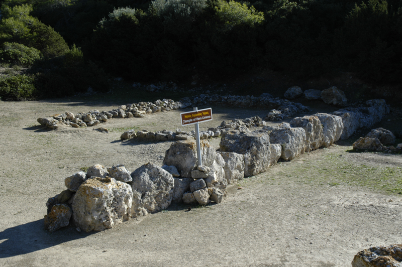 J. Matthew Harrington, personal digital image, November 16, 2006